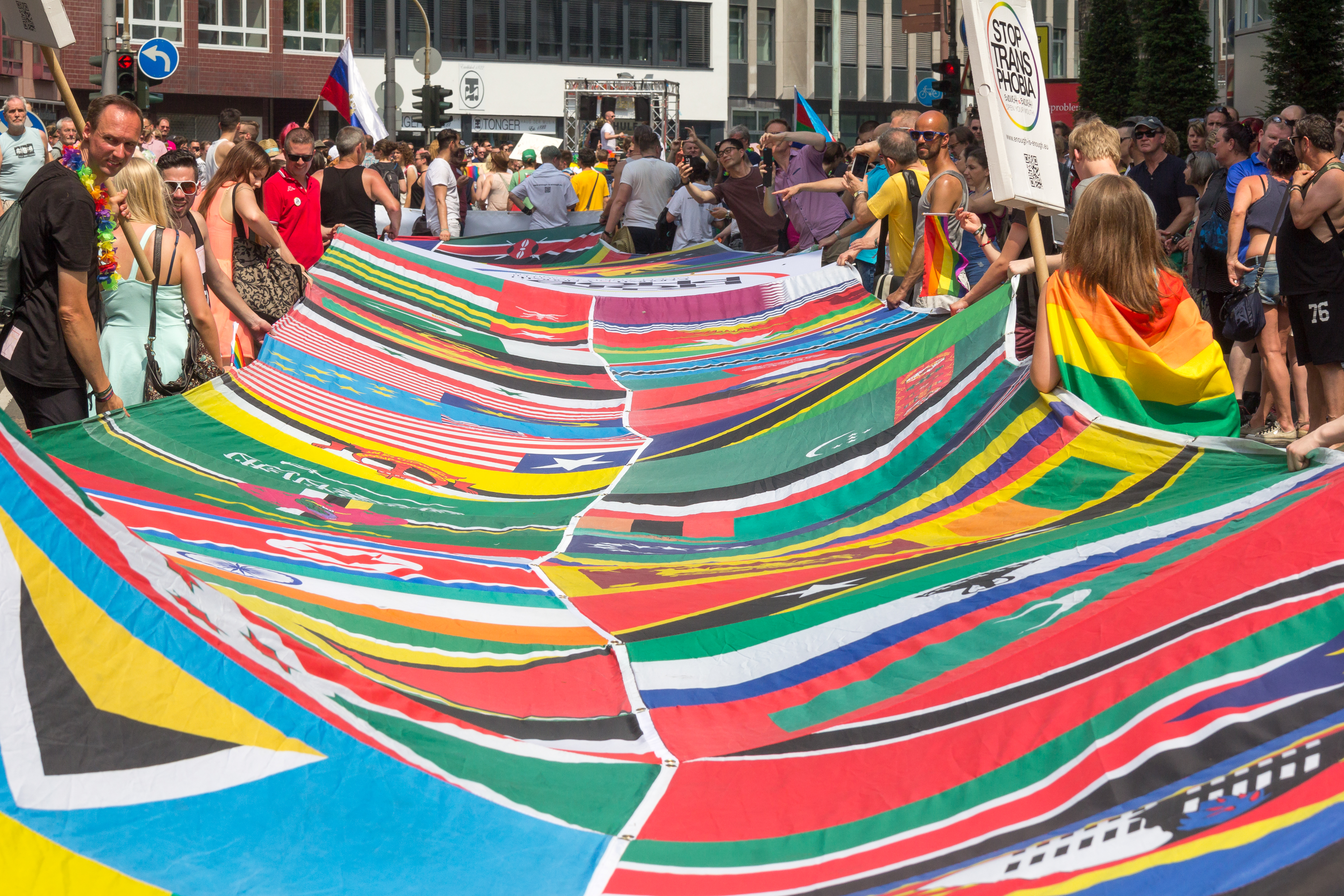 Participants of the ColognePride demonstration, Christopher Street Day Parade 2015 (CSD)